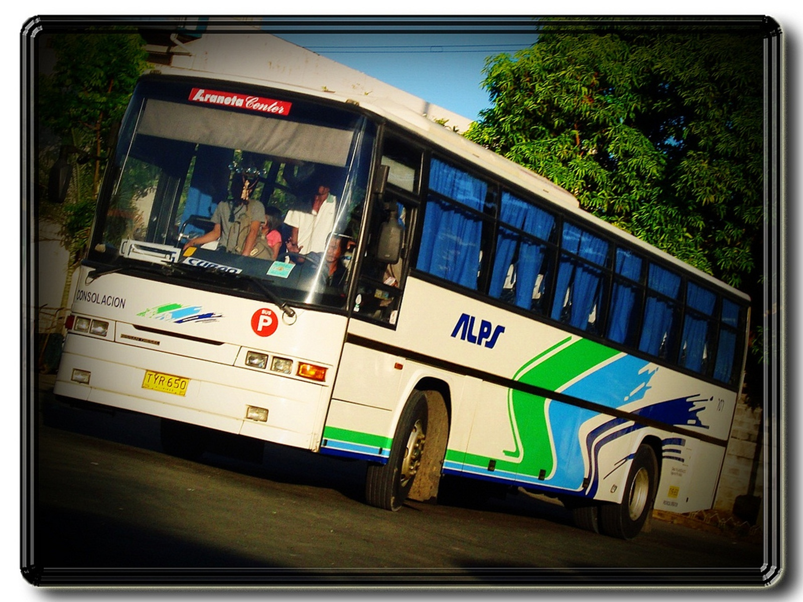 . ALPS The Bus, Incorporated - Nissan Diesel SR Euro - 707 a.k.a. Consolacion Taken at Araneta Center Cubao Bus Terminal Station - May 29, 2010 ALPS THE BUS, INCORPORATED Registration Number: TYR - 650 Bus number: 707 a.k.a. "Consolacion" Classification: Airconditioned Provincial Operation Bus Coachbuilder: Santarosa Philippines Motor Works, Incorporated Chassis: Nissan Diesel JA450SSN Model: SR Euro Bus Engine: Nissan Diesel PF6A Displacement: 762.808 cu. inches (12,503 cc / 12.5 Liters) Cylinders: Inline-6 Aspiration: Supercharged Power Output: 315.62 bhp (320 PS - metric hp / 235.36 kW) @ 2,100 rpm Torque Output: 954.28 lb.ft (1,294 N.m) @ 1,200 rpm Transmission: 6-speed Forward, 1-speed Reverse - (Manual Transmission) Layout: Rear-Mounted Engine Rear-Wheel Drive Airconditioning Unit: Overhead Unit Suspension: Leaf Spring Suspension Seating Configuration: 2x2 Maximum Passenger Seating Capacity: 53 Passengers Gross Vehicle Weight: 35,328 lbs. (16,000 kg) - (estimated)